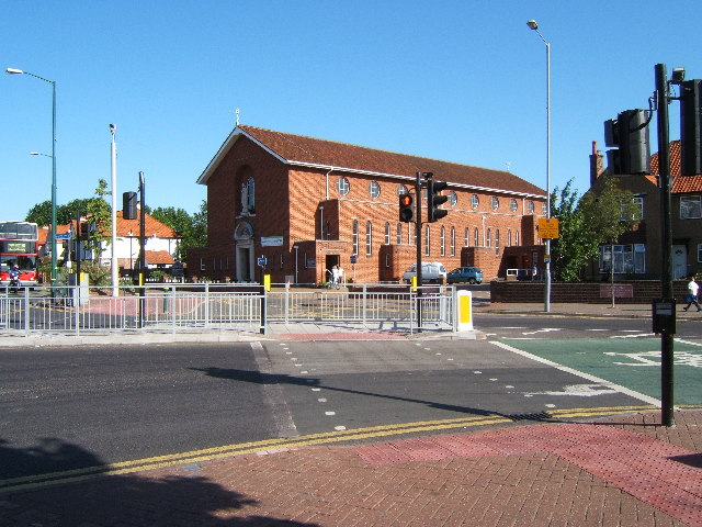 Our Lady Immaculate Catholic Church, Tolworth. On Ewell Road, at the north end of Tolworth Broadway.